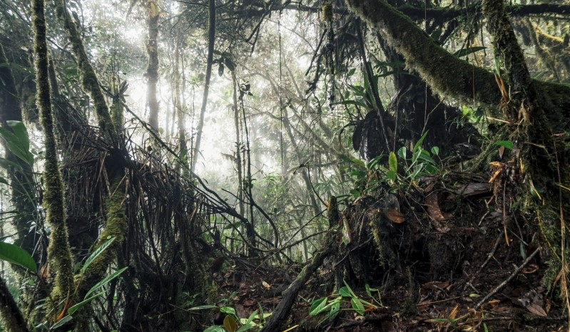 Cloudforest on the summit plateau of Waukauyengtipu, photographed by M. Wrazidlo in January 2018